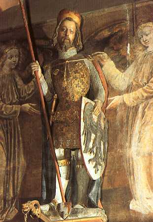 Wenzeslaus, probably by Peter Parler, in St. Vitus Cathedral, Prague